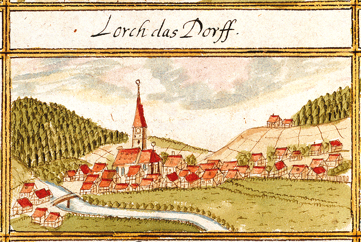 View of Lorch from the forest register books created by Andreas Kieser